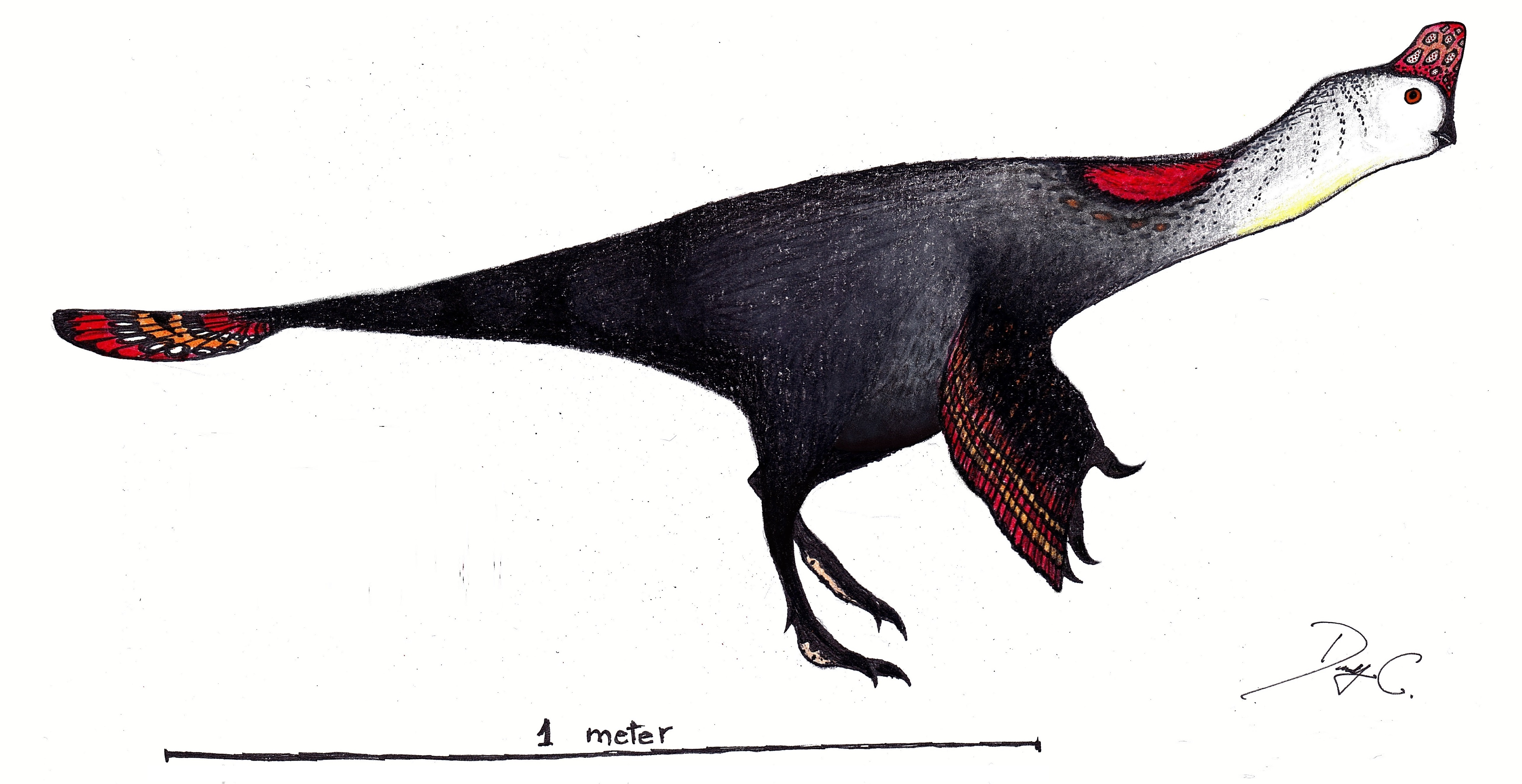 Life restoration